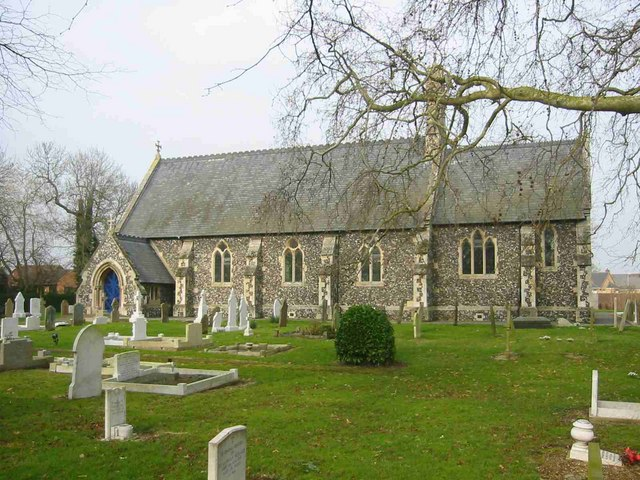 Gorefield St Paul Built in 1870 and still well looked after by the local community